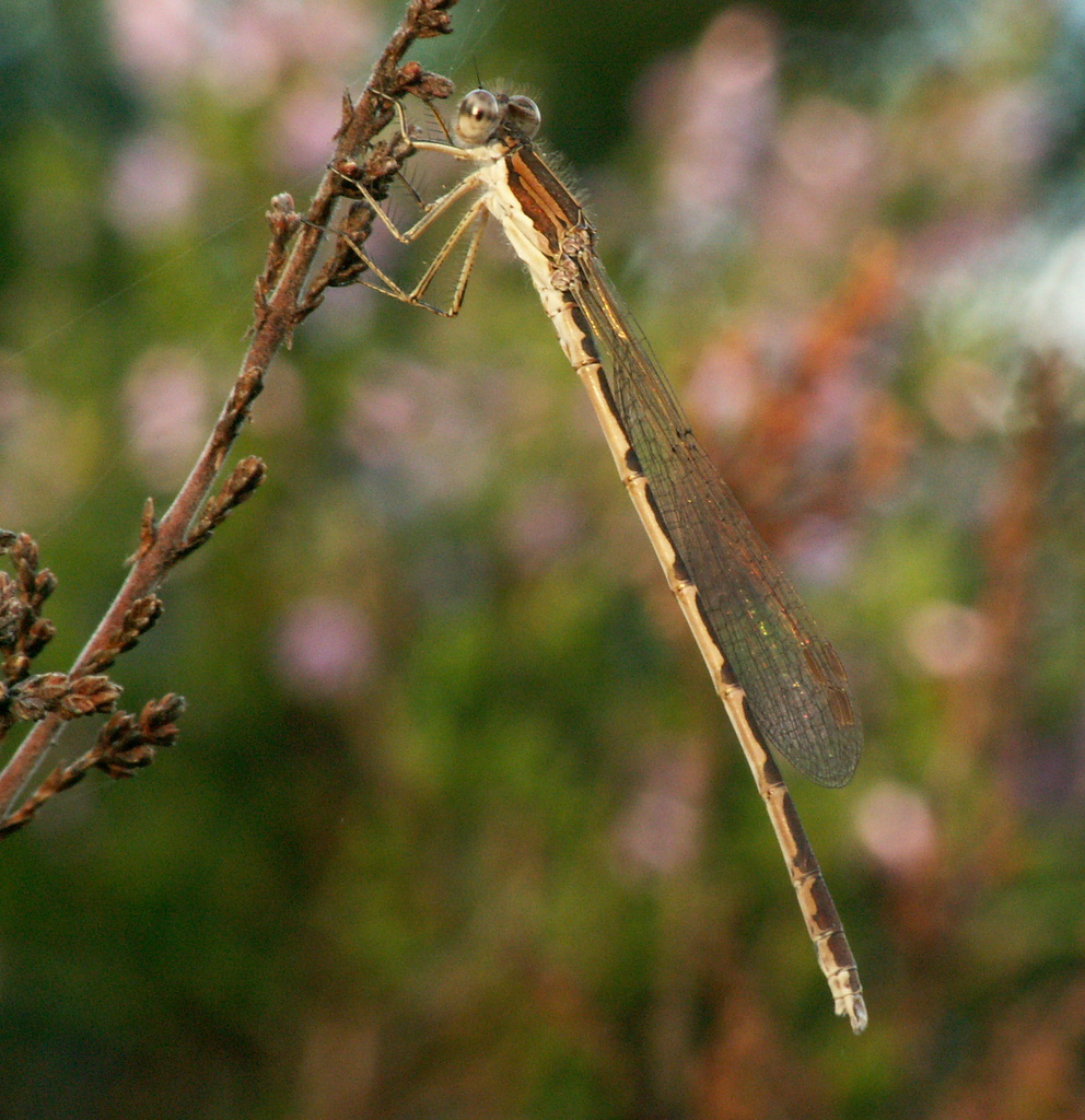 Male sympecma fusca in heathland